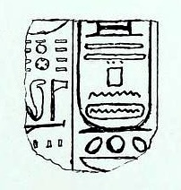 Drawing of a stone block bearing the cartouche of an othervise unknown pharaoh, Penamun, from Terraneh (ancient Terenuthis) in the Nile Delta, coeval to the 25th Dynasty or later.